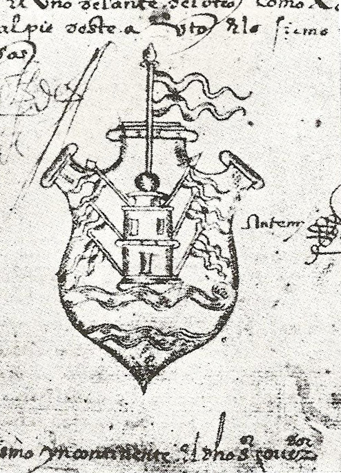 Coat of arms of Córdoba, Argentina, included in the book of records of the town, probably designed by the scribe Francisco Torres.